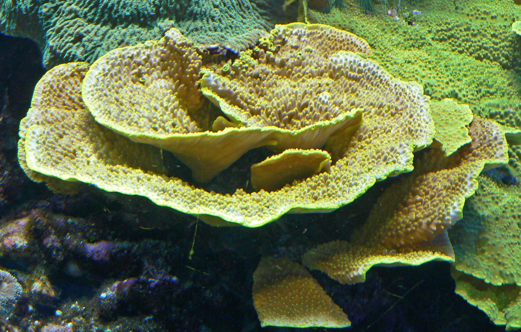 Photo of Turbinaria reniformis at the Birch Aquarium in San Diego